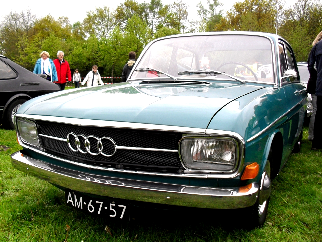 Audi F103